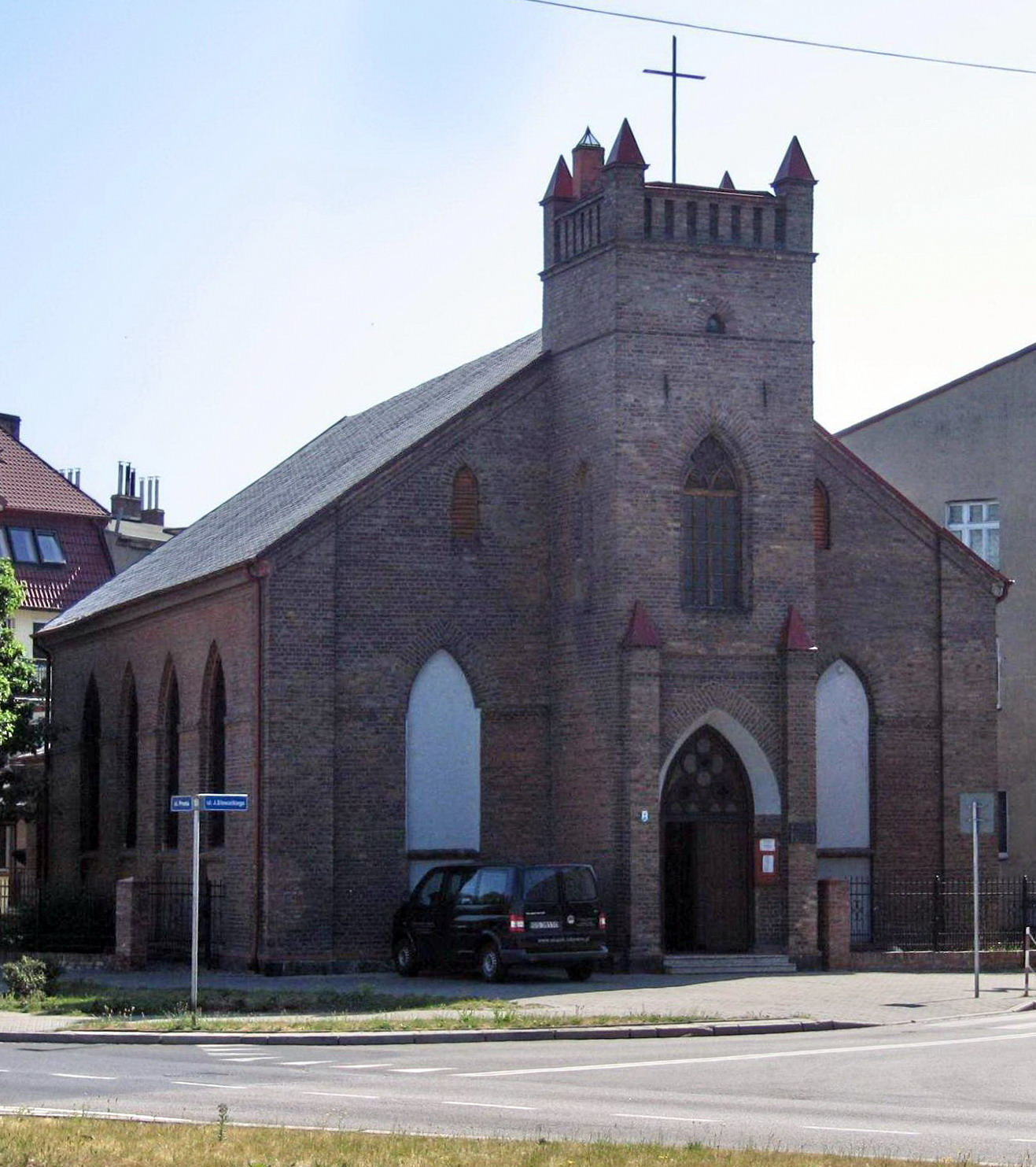 Evangelical-Augsburg Church in Słupsk